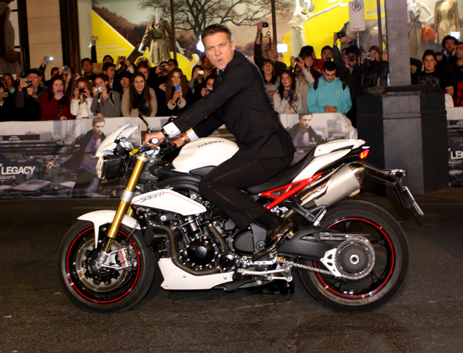 Jeremy Renner at the The Bourne Legacy Australian Premiere at State Theatre, Sydney, Australia 2012.